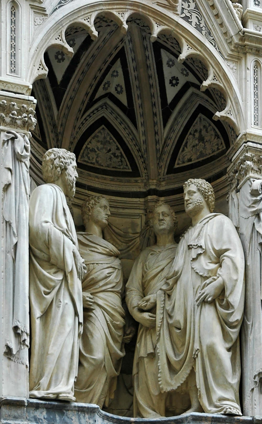 The Four Crowned Saints. Statue commissioned by the Arte dei Maestri di Pietra e Legname (guild of wood and stone cutters). Orsanmichele, Florence.